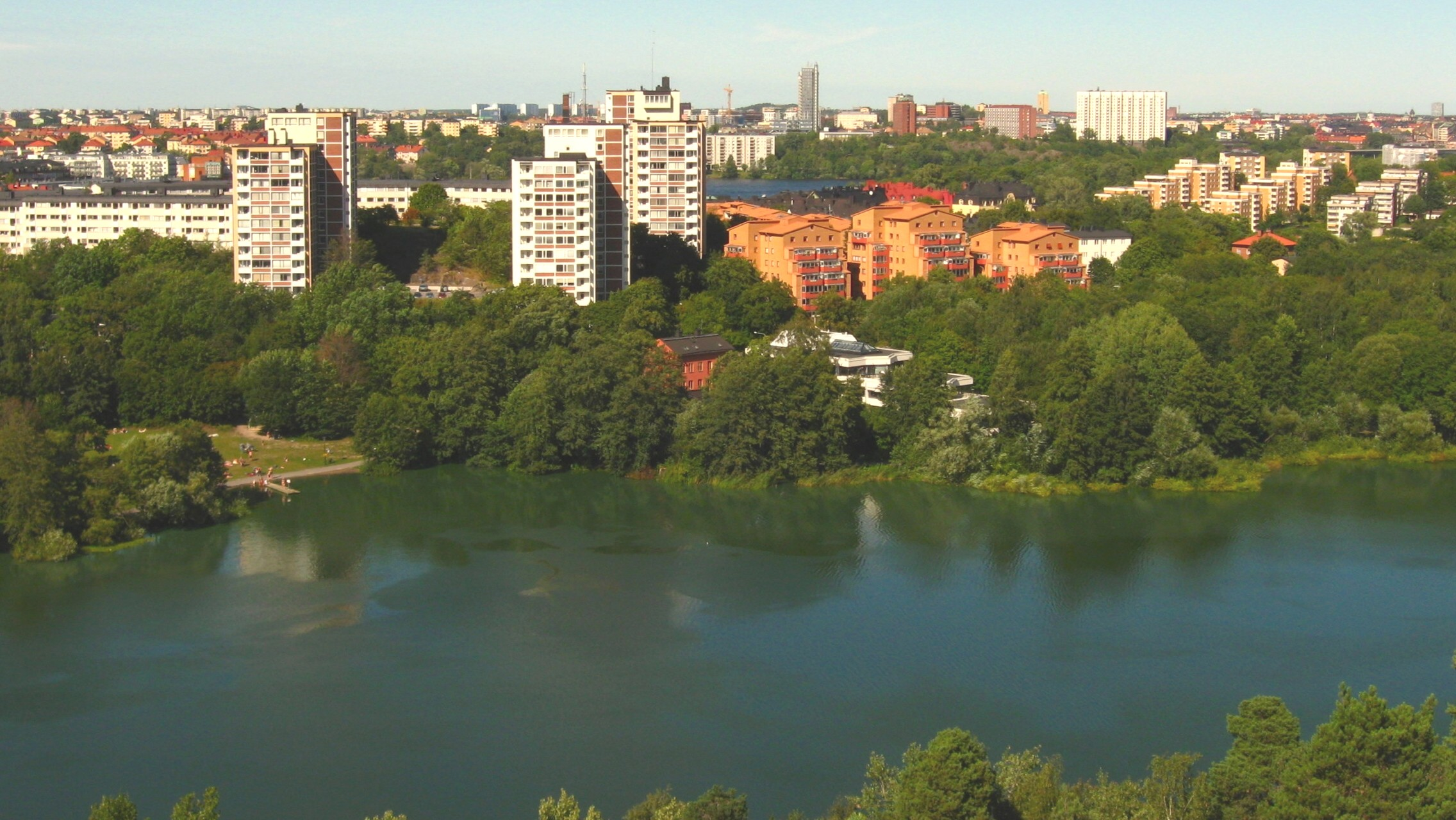 Lake Trekanten in Stockholm, Sweden. Taken from Nybohov